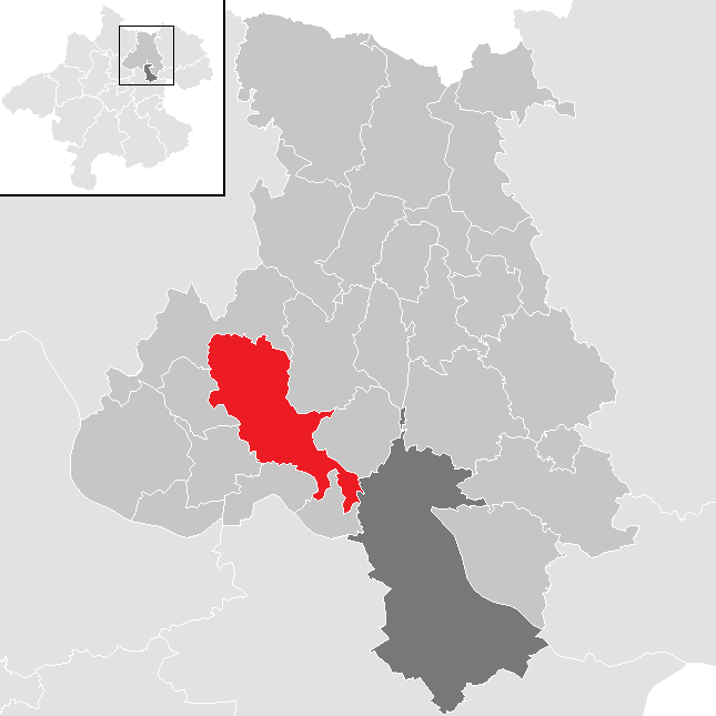 District Urfahr-Umgebung